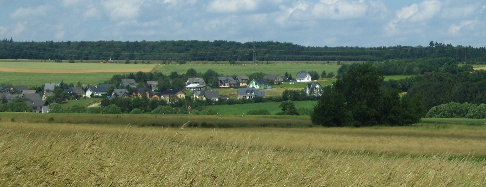 Niedersohren in the Hunsrueck area, Germany